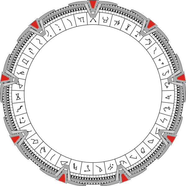 A Milky Way Stargate with detailed glyphs, partially colored